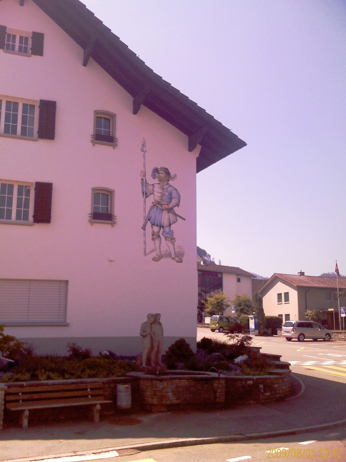 Littau, canton of Luzern, SwitzerlandEsperanto: Littau, Kantono Lucerno, Svislando